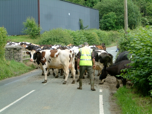 Cows Ahead Cows going to be milked crossing the B4396 near Abercynllaith. (Taken while on Barmouth to Yarmouth cycle ride)